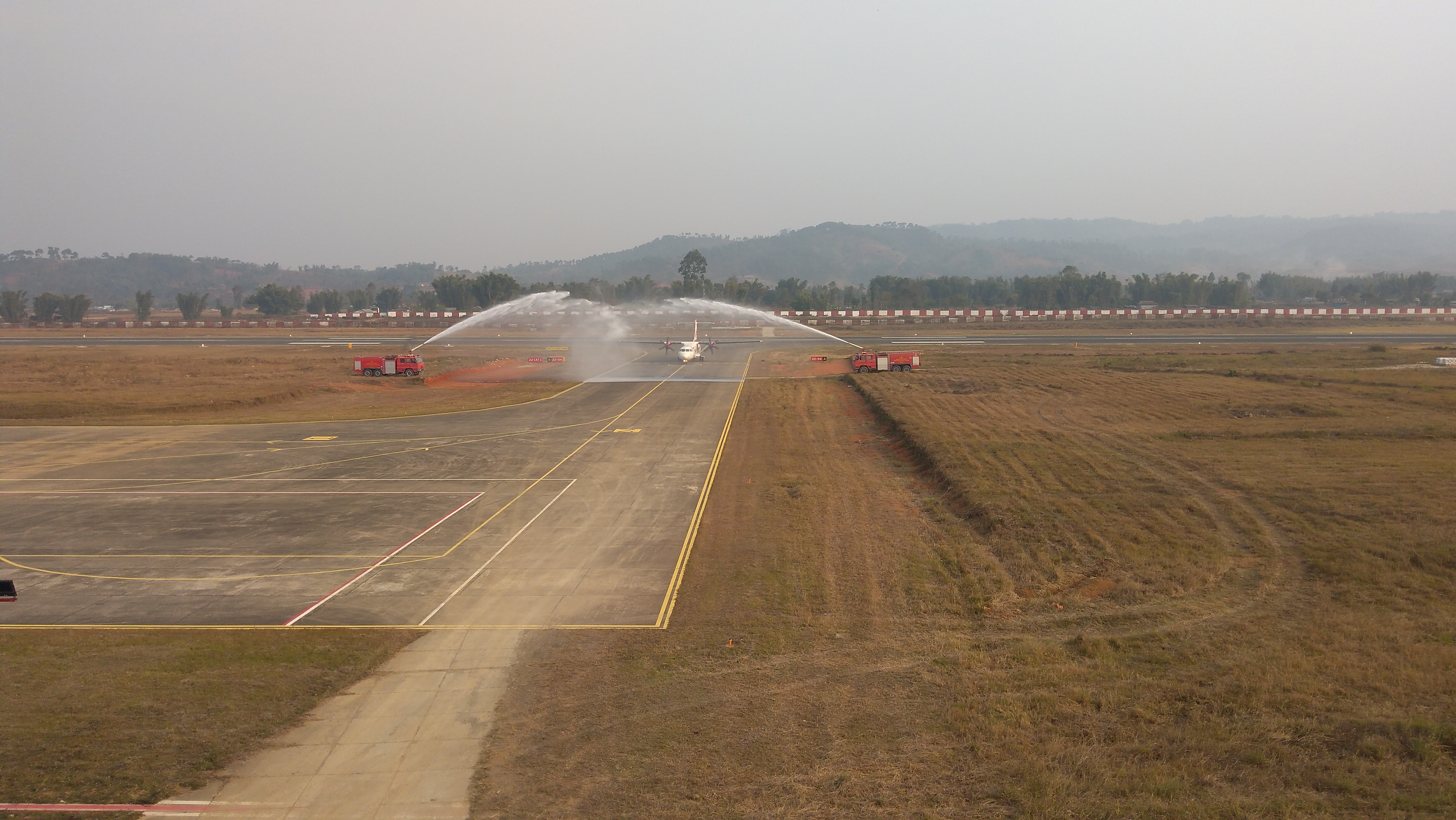 Water canon salute to first ATR72 flight at Shillong airport